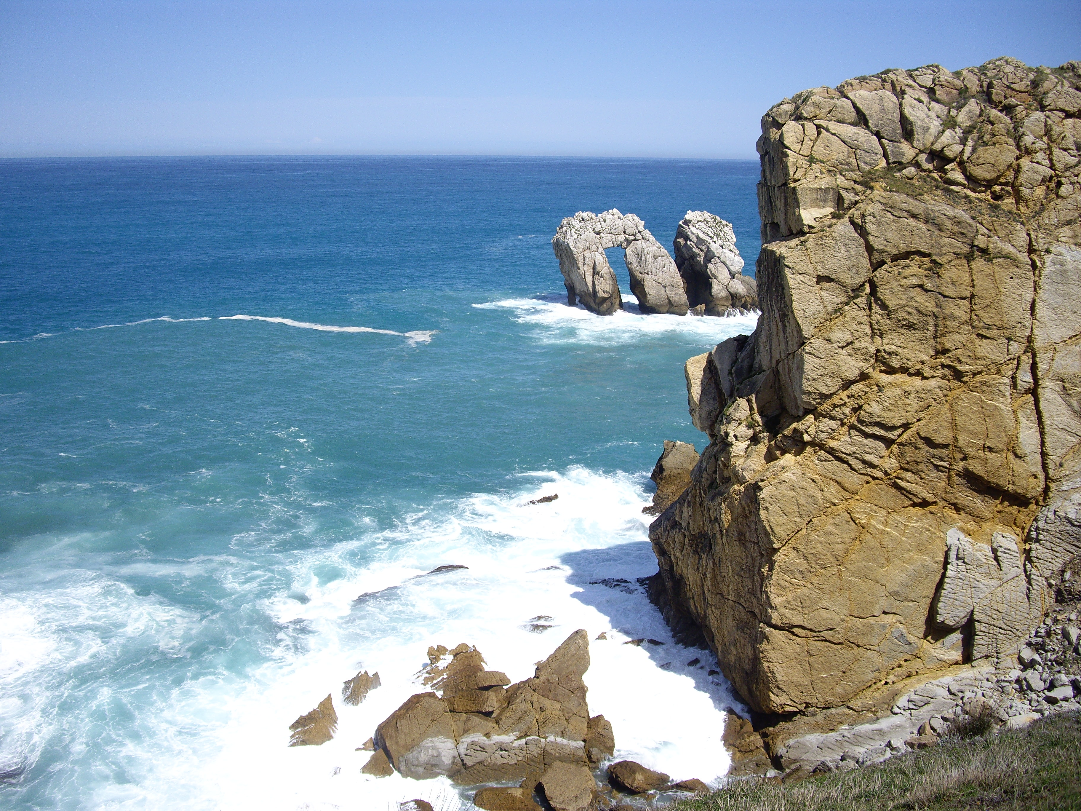 Islets called "Urros" near Liencres, in Piélagos (Cantabria, Spain)